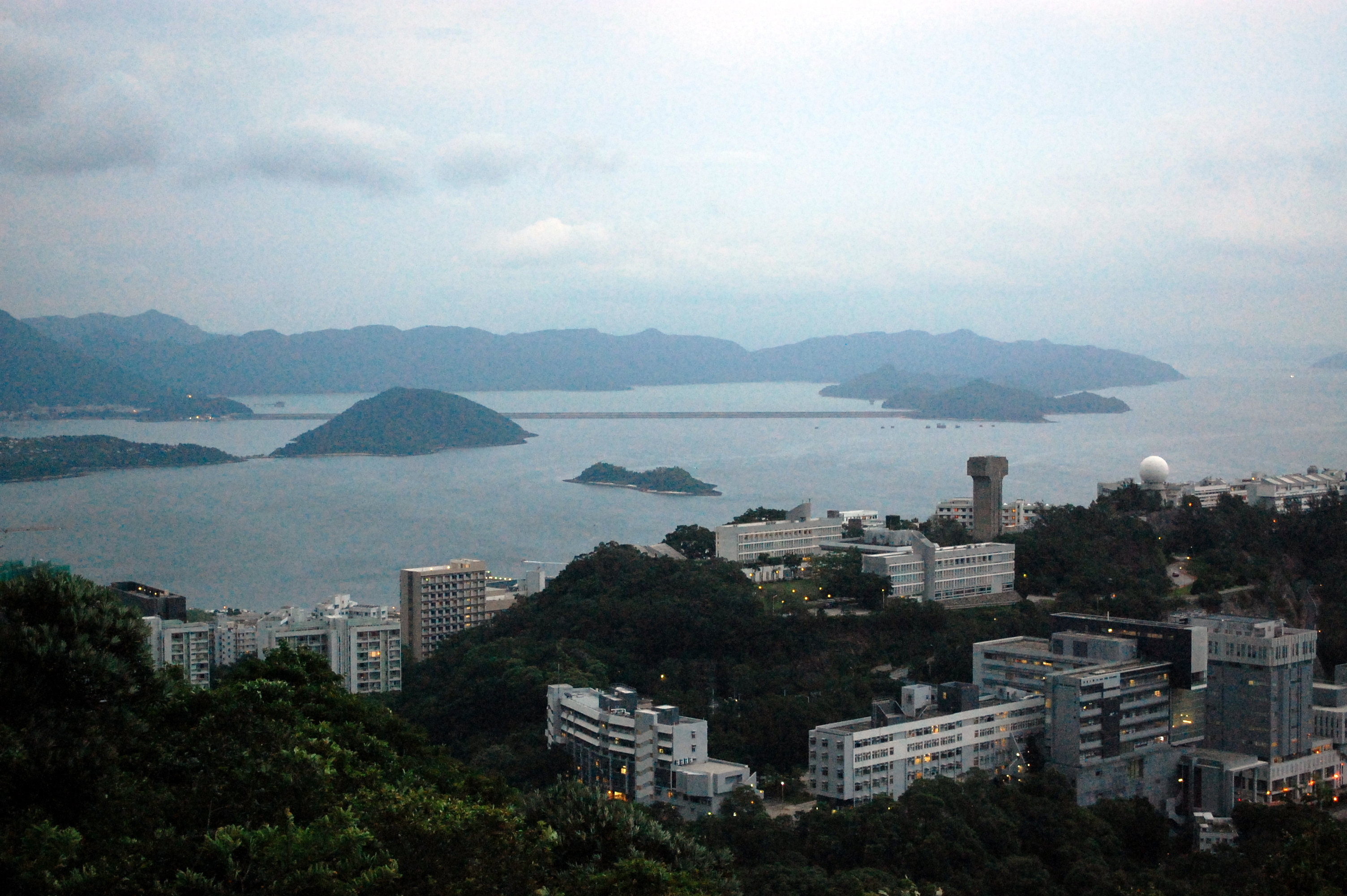 The Plover Cove Reservoir as viewed from Kau To Shan, with the Chinese University of Hong Kong in the foreground.中文（香港）: 船灣淡水湖的九肚山查看。